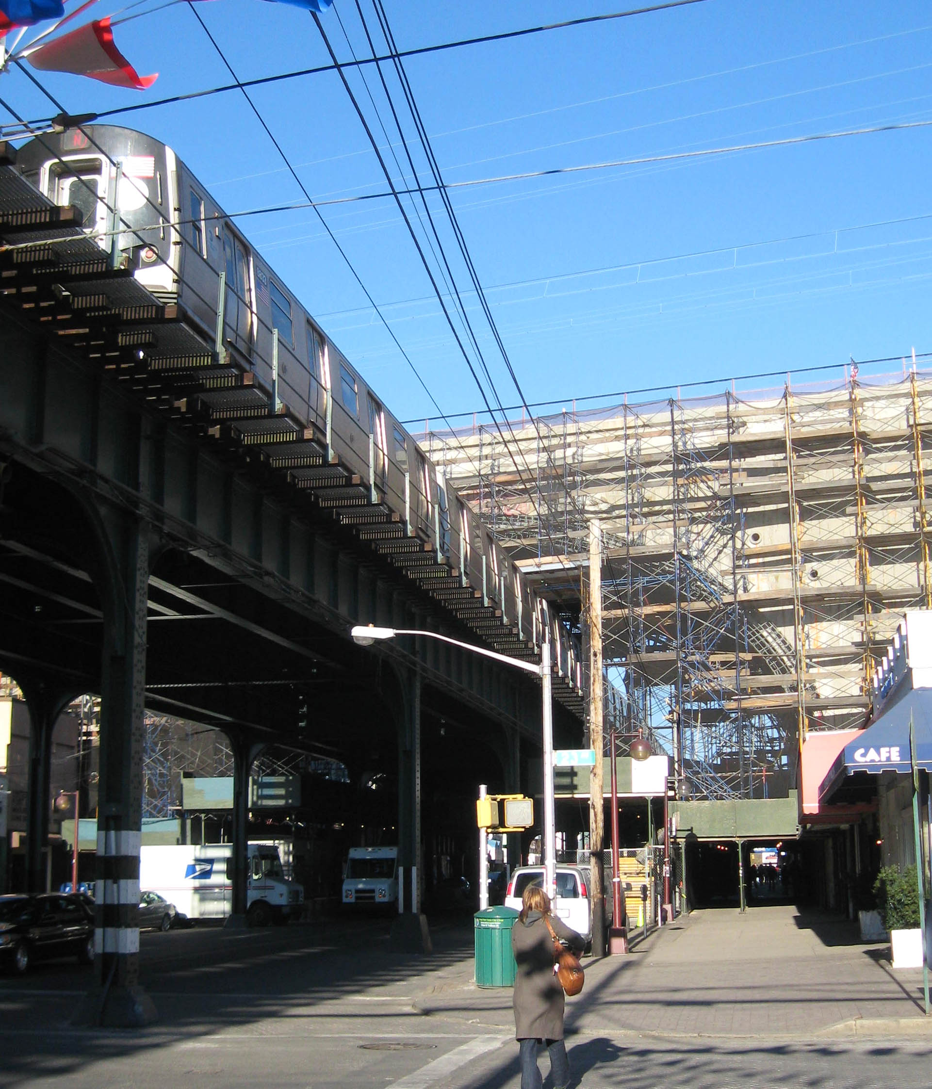 Looking northeast from 23rd Avenue as an N train on the BMT Astoria Line runs under the New York Connecting Railroad on its way to the terminal station on a sunny afternoon.